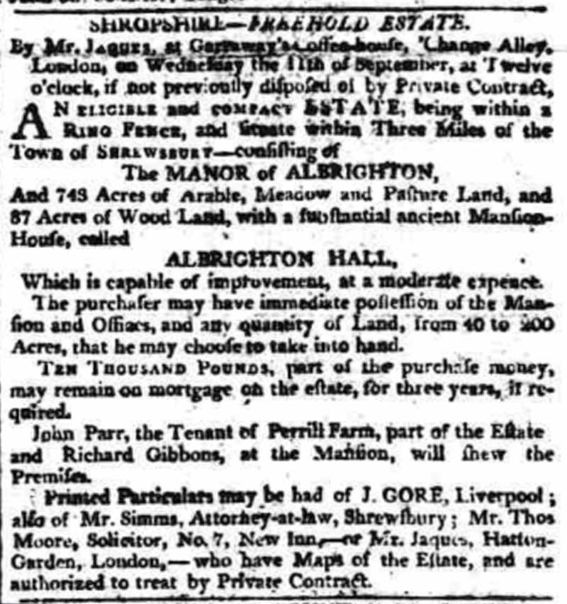 Sale notice of Albrighton Hall, Shropshire, 1881